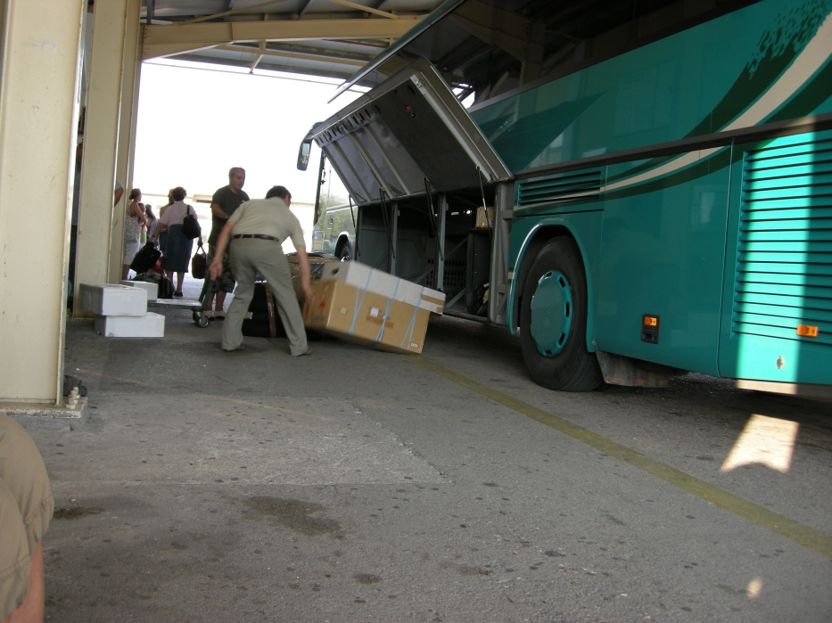 Unloading the mail from a bus in Greece.